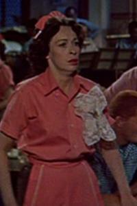 Screenshot of Eileen Heckart from the trailer for the film Bus Stop